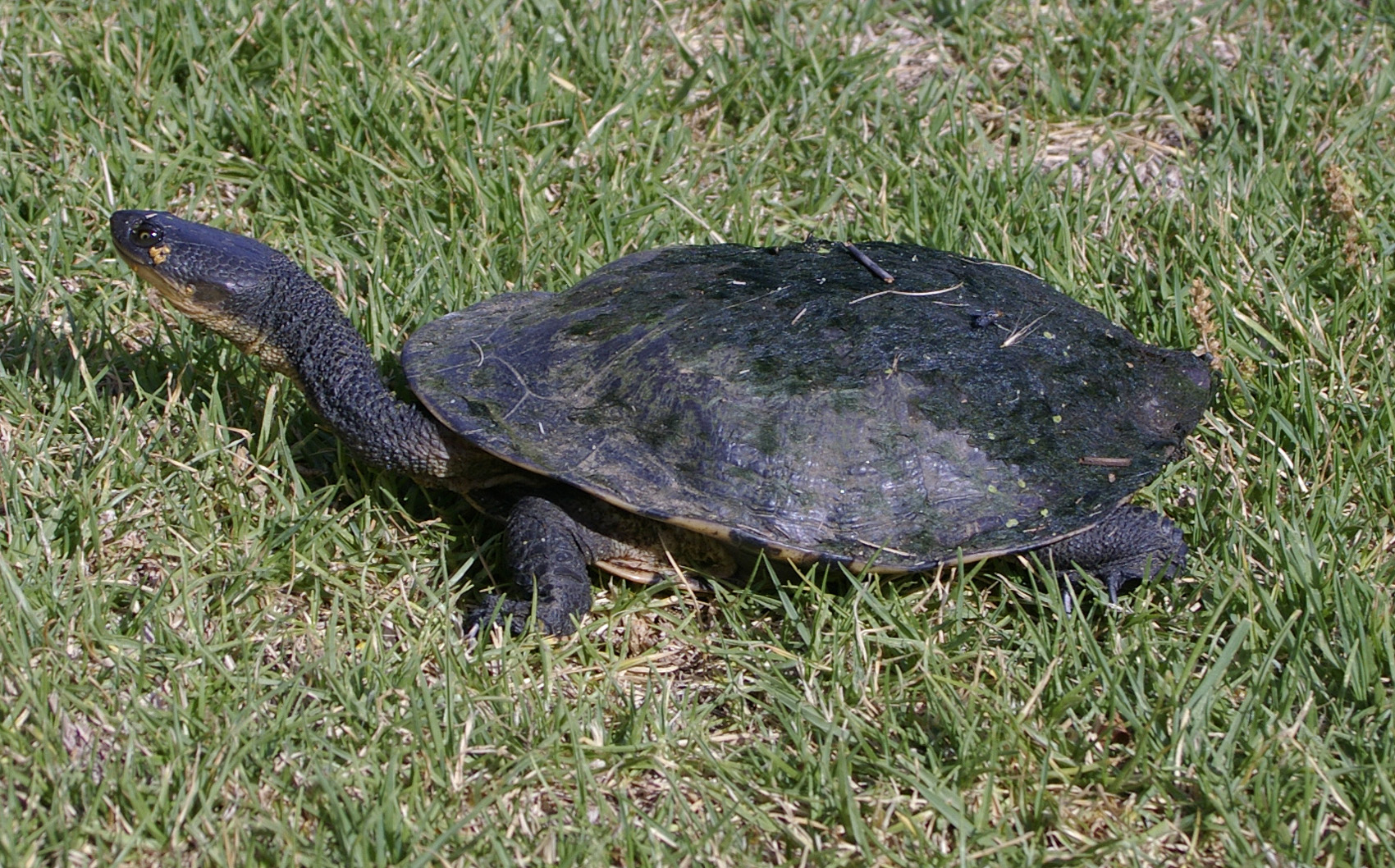 Common snakeneck turtle (Chelodina longicollis) with algae on the shell which it can use to camouflage when it's in the water. Photographed in Wagga Wagga, New South Wales near the Wollundry Lagoon.